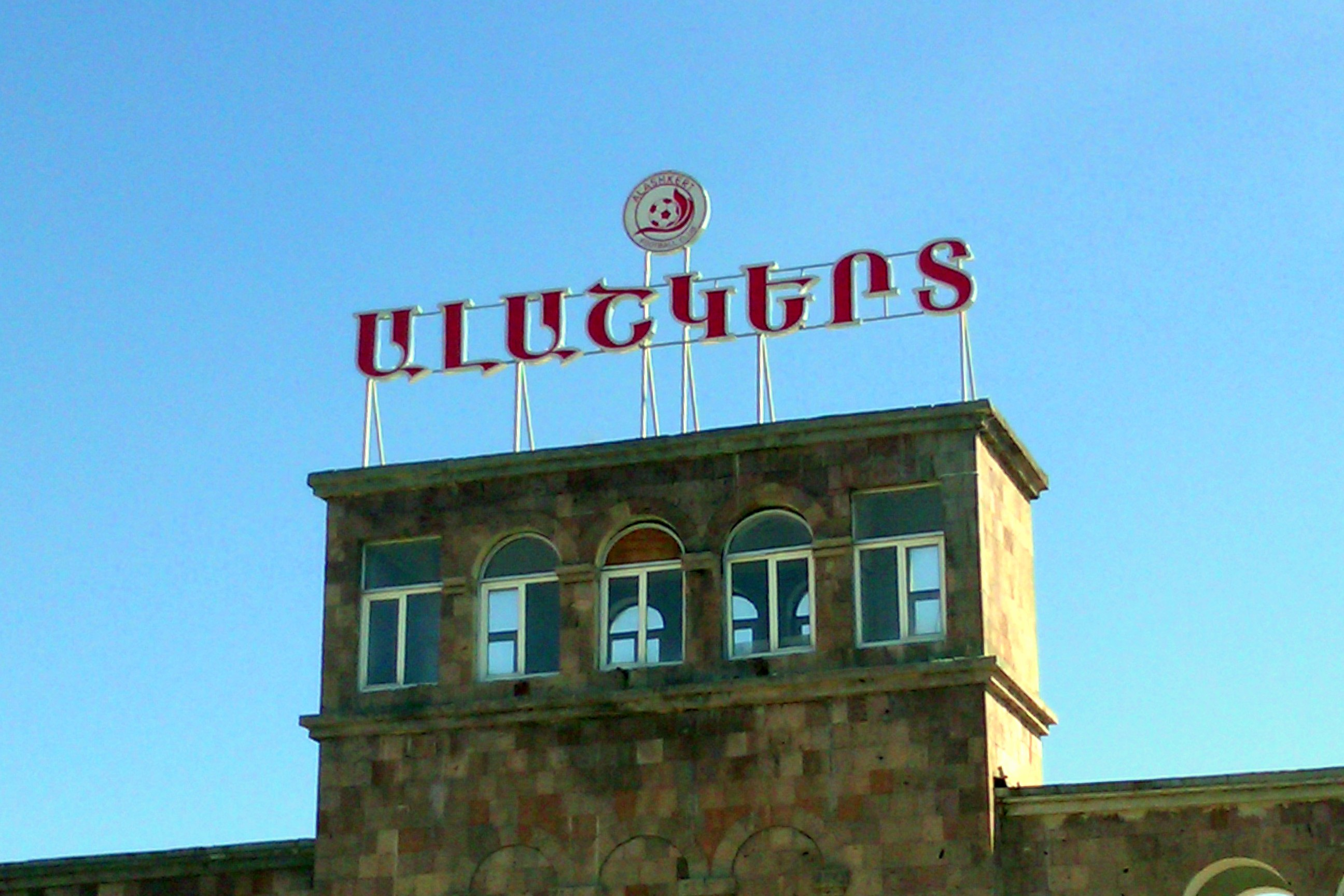 Nairi Stadium, Yerevan, Armenia.